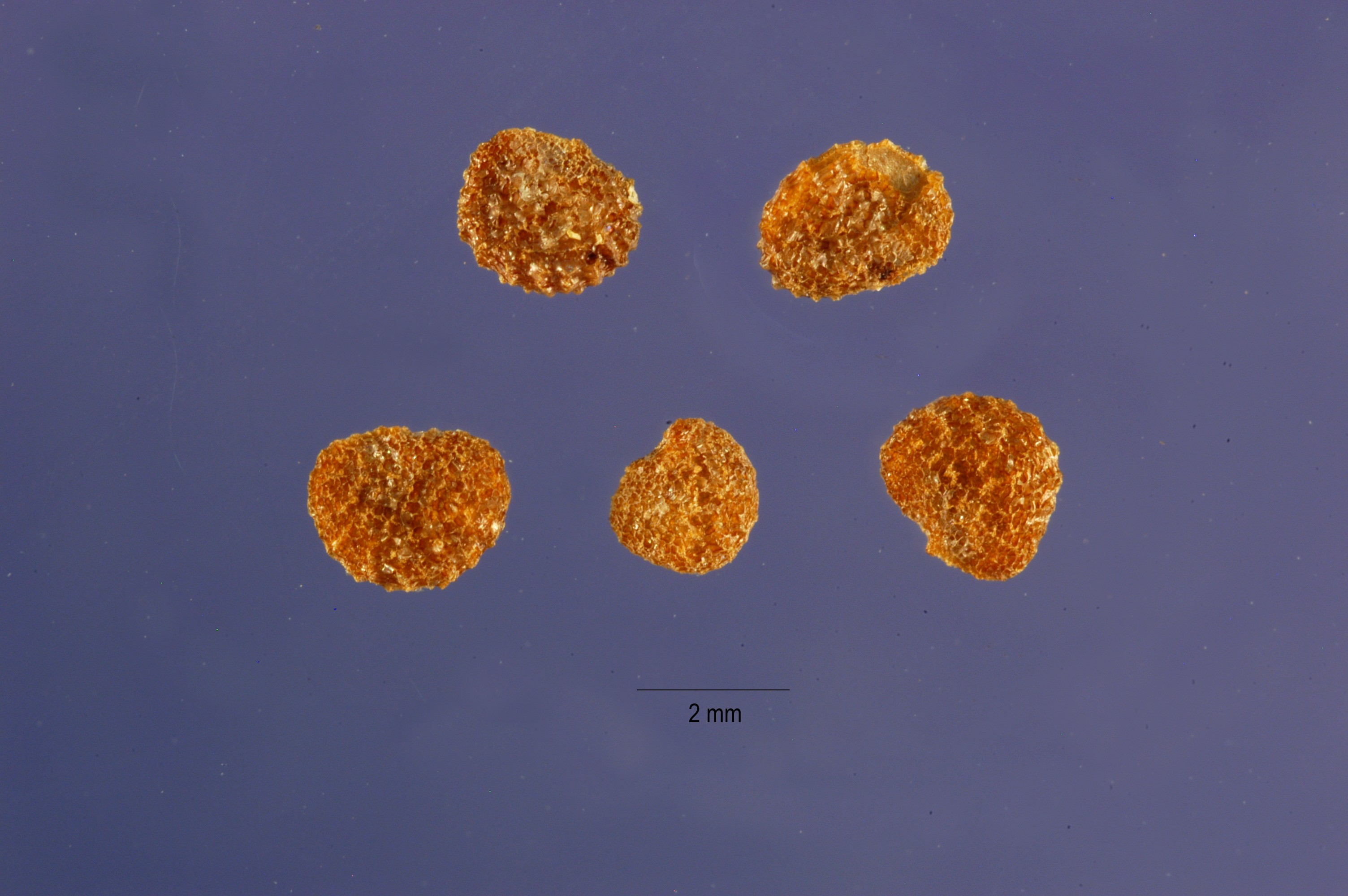 Chamaesaracha coronopus seeds. Provided by ARS Systematic Botany and Mycology Laboratory. United States, AZ.